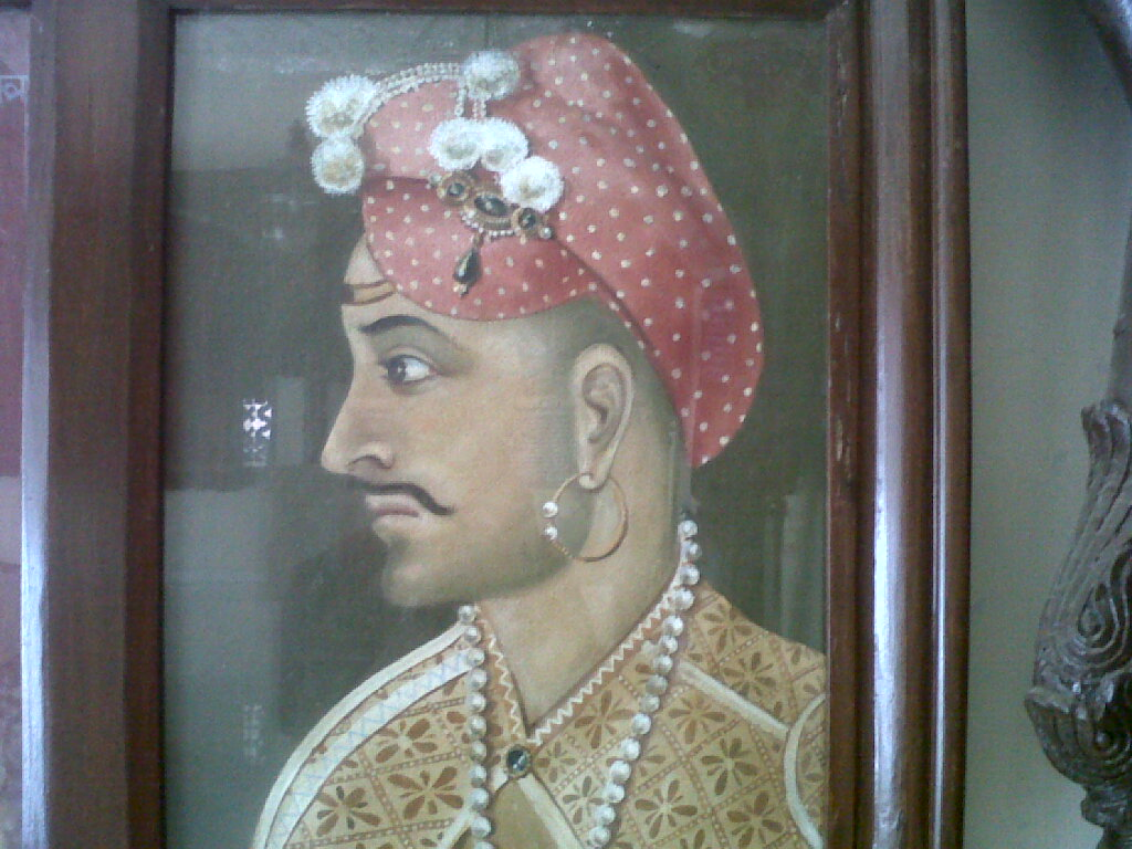 A portrait of His Highness Sadashivrao Bhau Peshwa, a part of Peshwa Memorial atop Parvati Hill in Pune, India. Sadashivrao Bhau (aka Bhausaheb) was the 'Diwan of Peshwa' and later served as 'Sarsenapati' (Commander-in-chief) during the Third Battle of Panipat